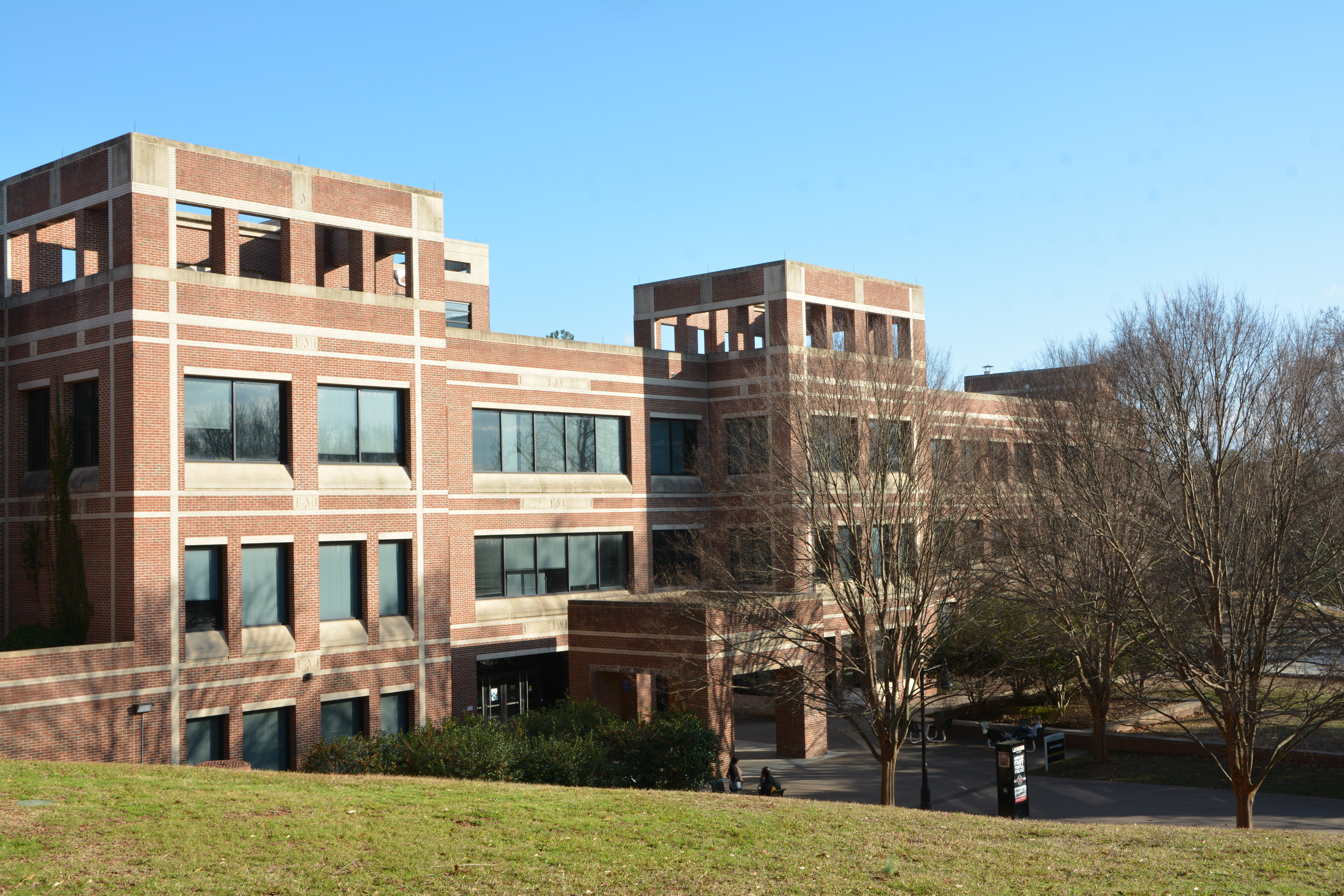 Kennesaw State University, Marietta Campus, Atrium Building